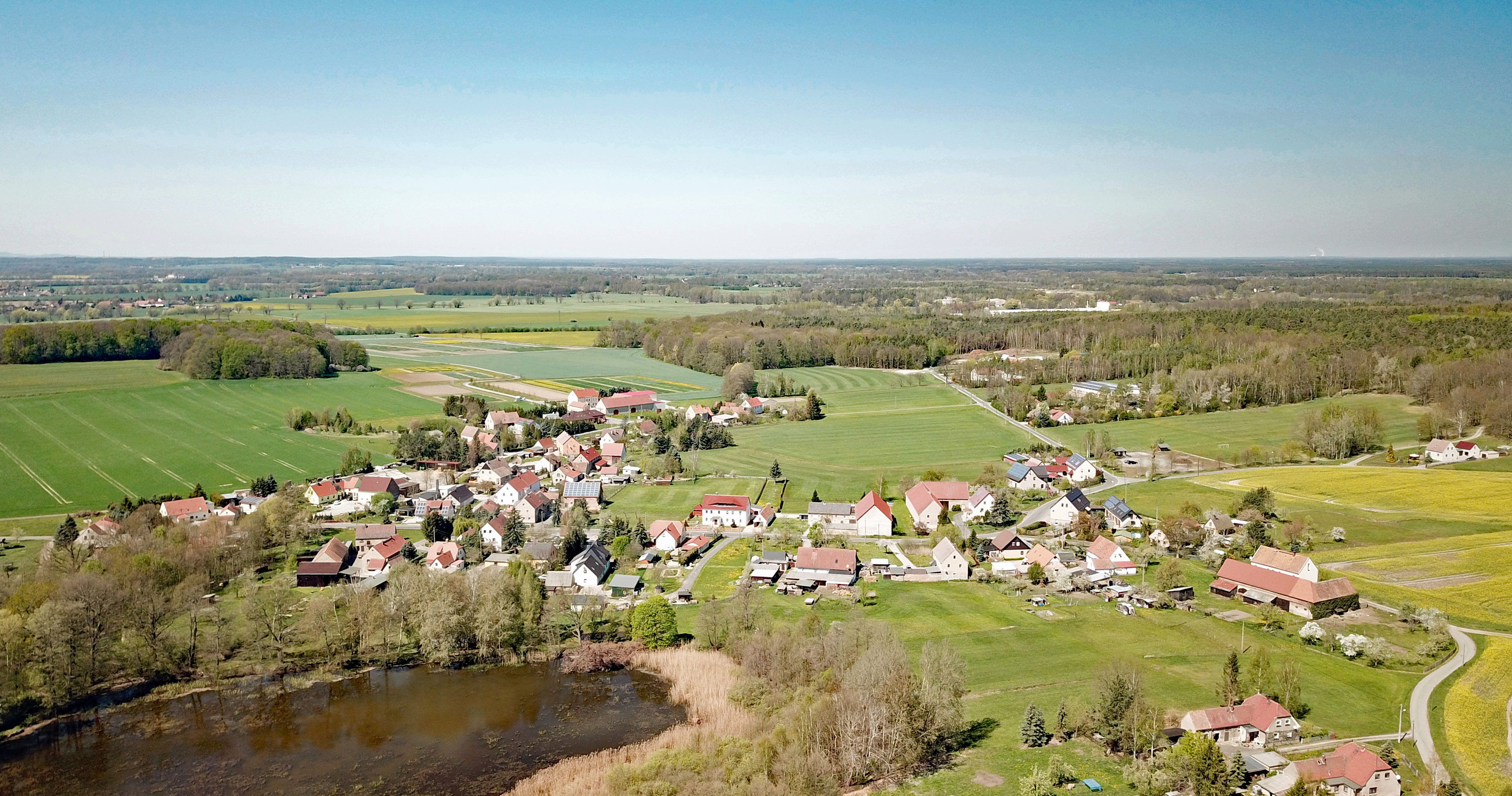 Dubrauke, Malschwitz, Saxony, Germany Hornjoserbsce: Powětrowy wobraz Dubrawki pola Barta Dieses Foto wurde mit einem Quadcopter innerhalb der RMZ des Flugplatzes EDAB aufgenommen. Der Flugleiter wurde am Aufnahmetag telephonisch über Ort und Zeit informiert und hat zugestimmt. Der Flug erfolgte auf Grundlage der Allgemeinverfügung der Landesdirektion Sachsen zur Erteilung der Betriebserlaubnis für unbemannte Luftfahrtsysteme und Flugmodelle gemäß § 21a LuftVO und Zulassung von Ausnahmen von Betriebsverboten gemäß § 21b LuftVO für den Freistaat Sachsen.